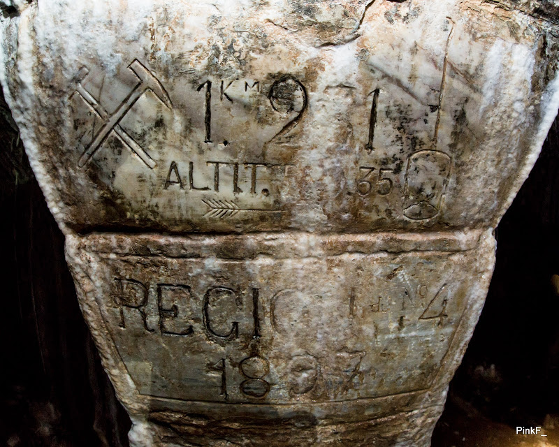 Hilarion Mine, Kamariza Mines, Lavrion Greece